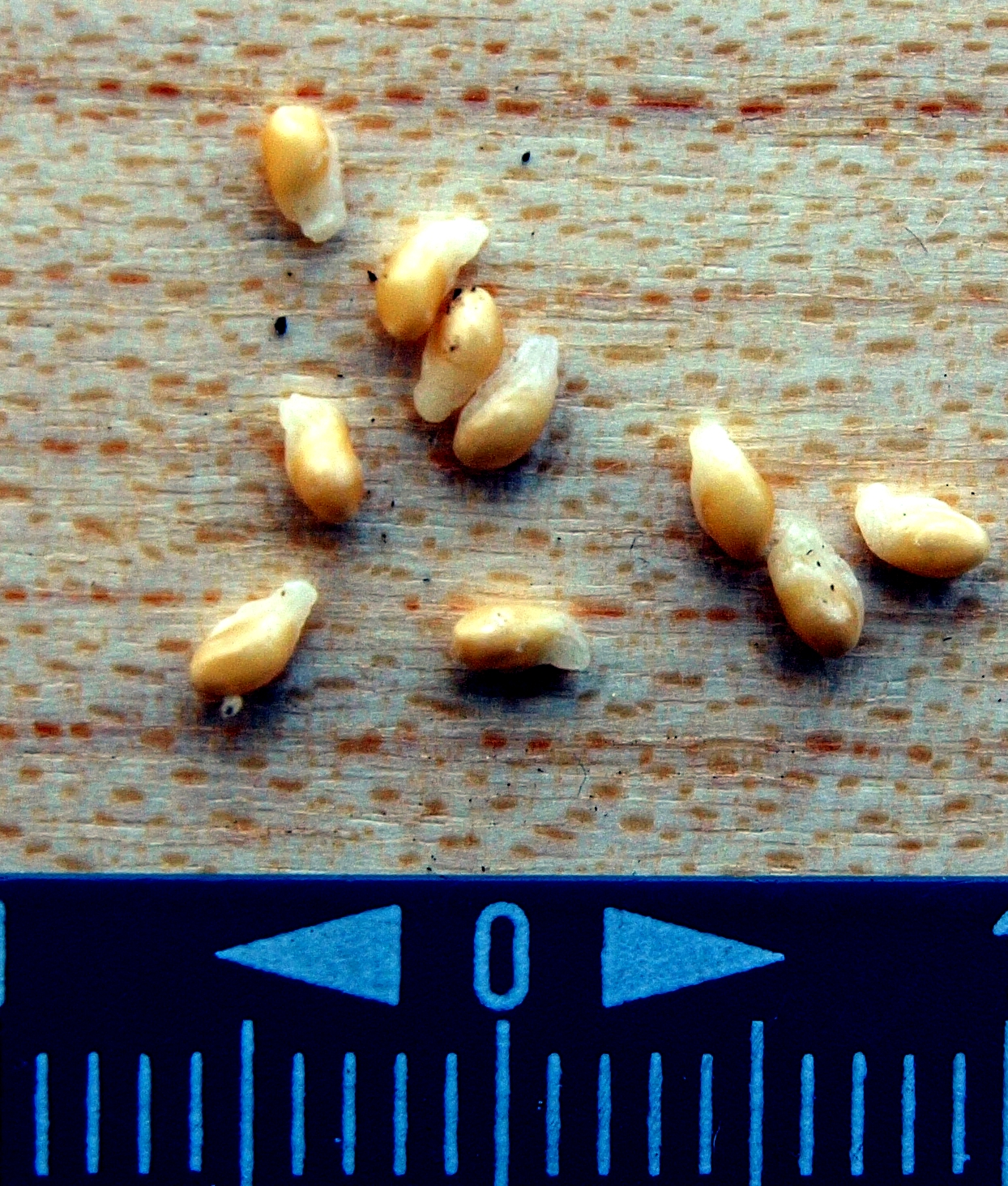 Seeds with Elaiosom Viola chelmea ssp. vratnikensis. Example for Myrmecochory in plant dispersal